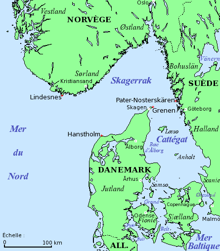 Map of Skagerrak and Kattegat (Denmark, Norway, Sweden). French names set. (Mercator-projection, data from 2005.)